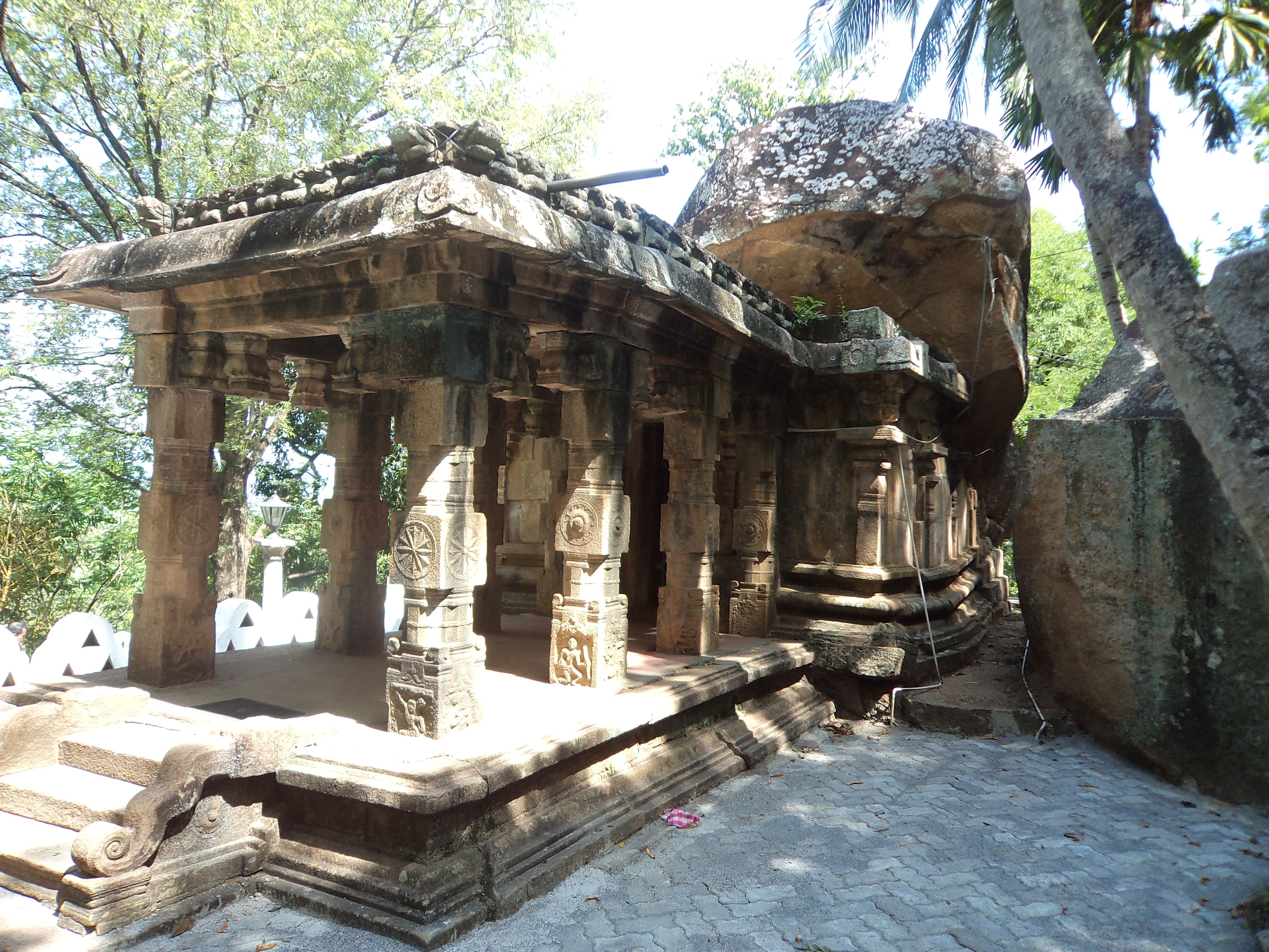 Waraka Welandu Viharaya at Ridi Viharaya, Kurunegala, Sri Lanka